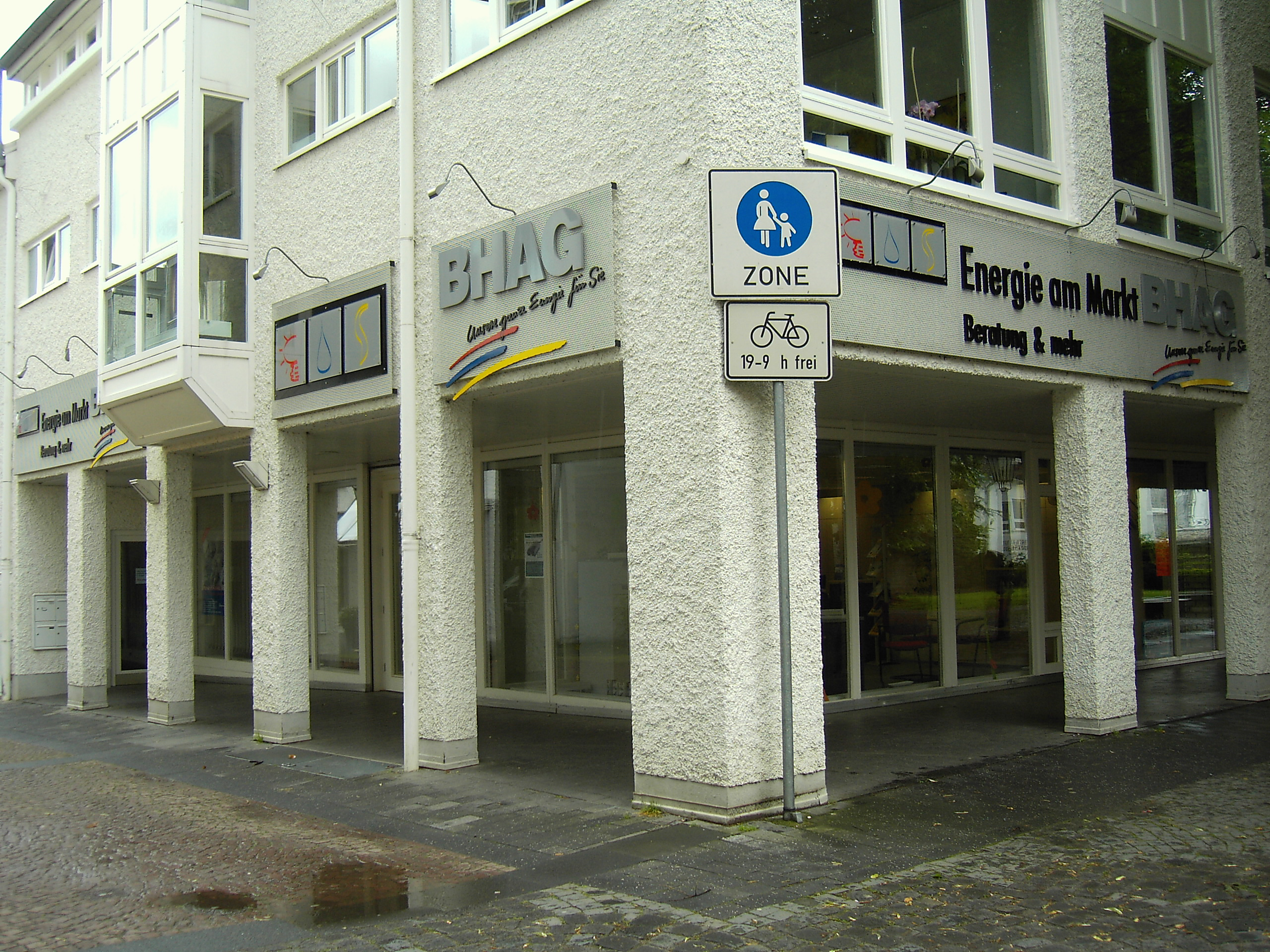 Costumer centre of the Bad Honnef AG in the pedestrian precinct of Bad Honnef.